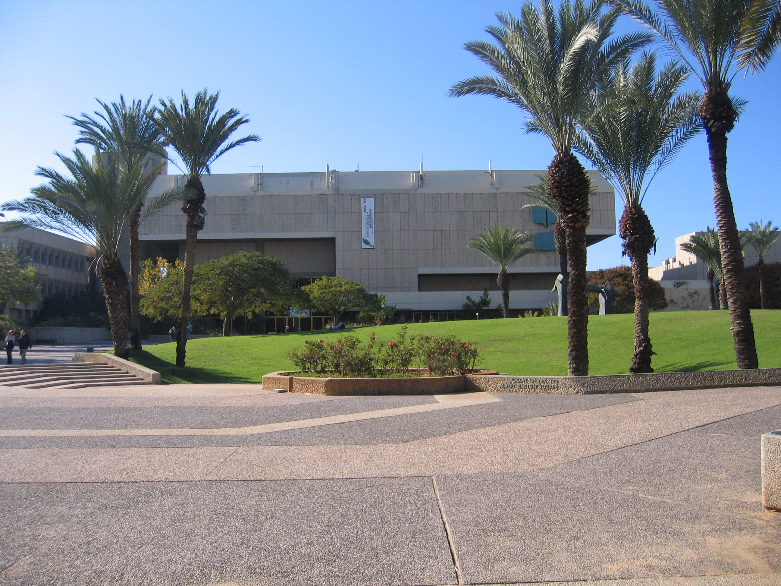 Beth Hatefutsoth